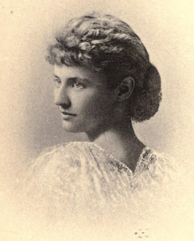 Screenshot-2017-9-10 Poems of Orelia Key Bell